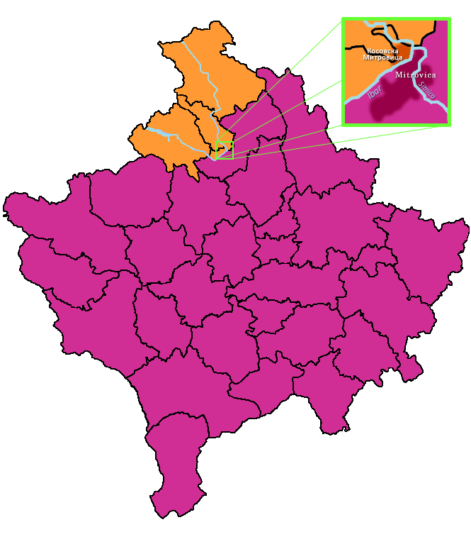 Map of North Kosovo area, showing Ibar River and divided city of Kosovska Mitrovica.